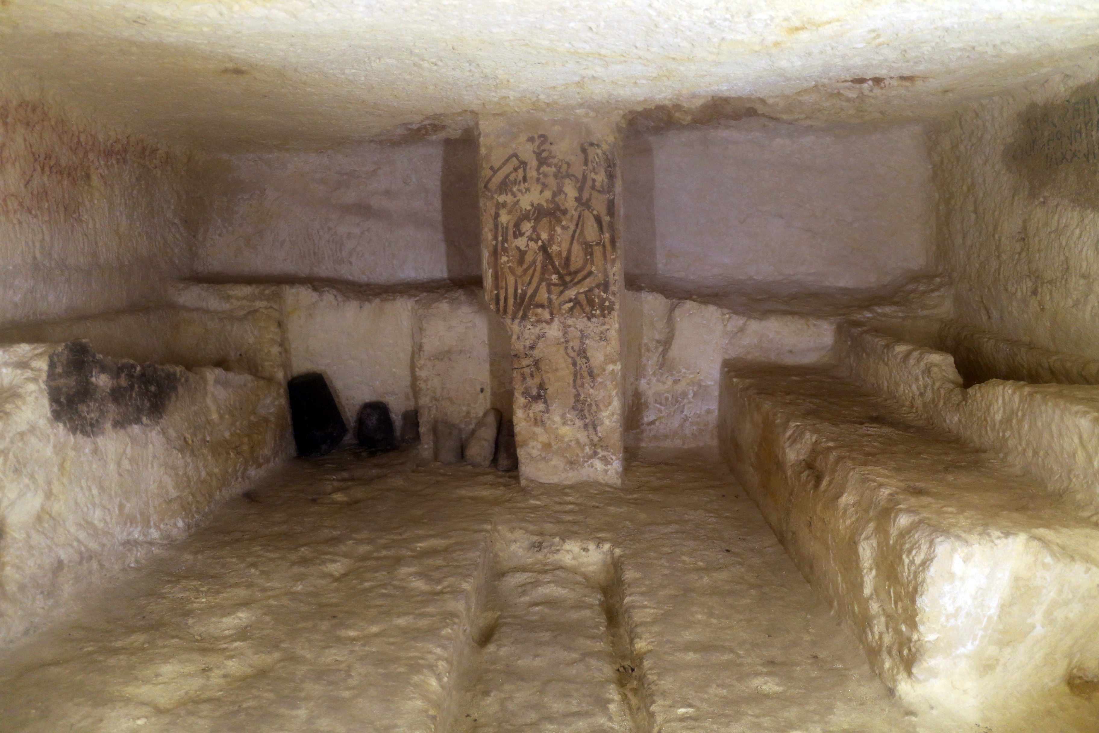 Necropoli dei Monterozzi (Tarquinia)